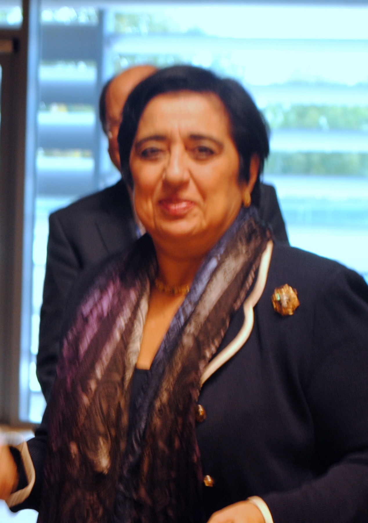 Foreign Minister Urmas Paet and Foreign Minister of Cyprus Erato Kozakou-Marcoullis signed an agreement for the avoidance of double taxation and an agreement for the prevention of fiscal evasion between Estonia and Cyprus in Luxembourg. 17 October 2012